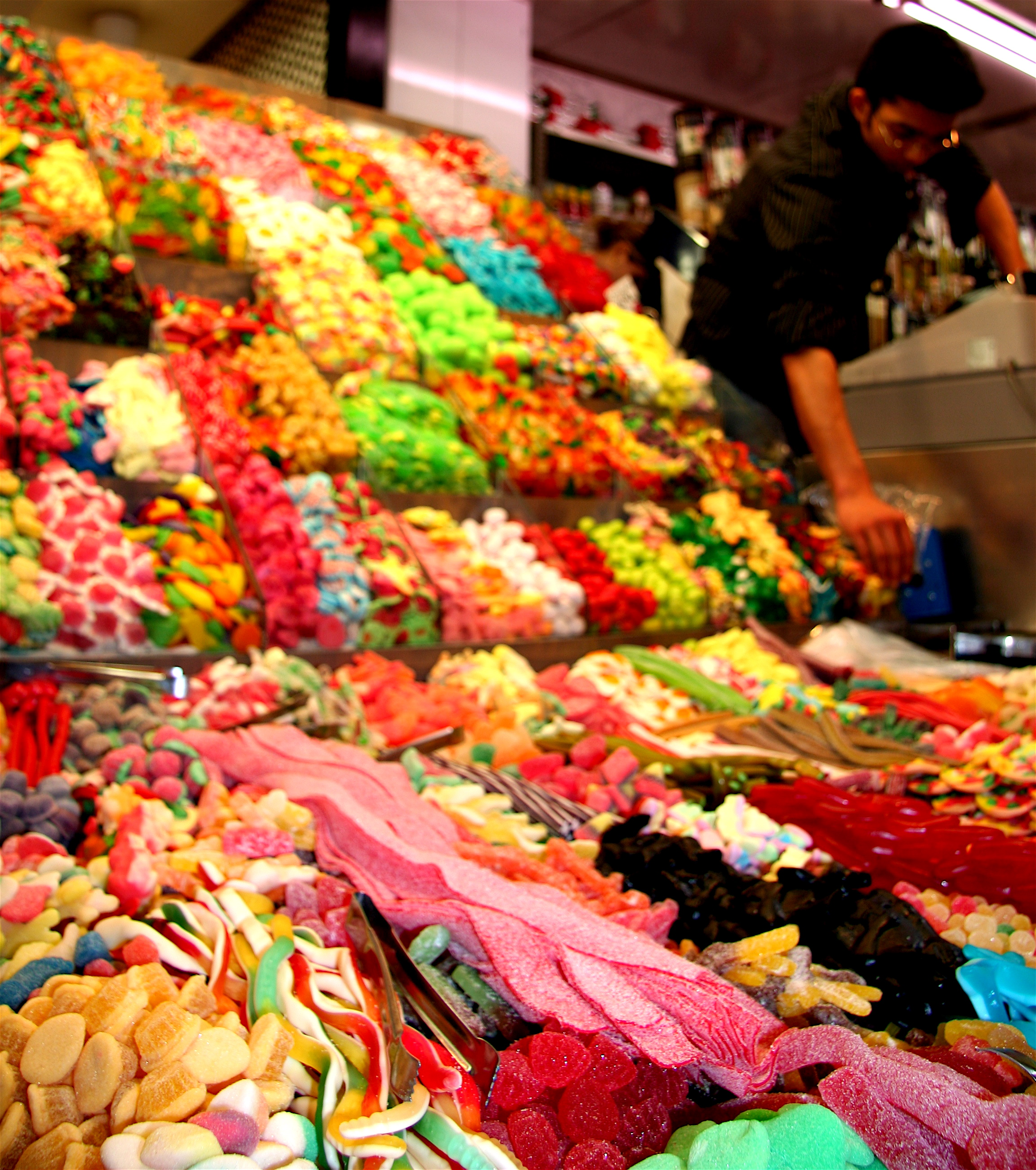 An amazing range of candy on display on a market in Barcelona, Spain. Created in May 2006 by Michael Ströck (mstroeck). Released under the GFDL.